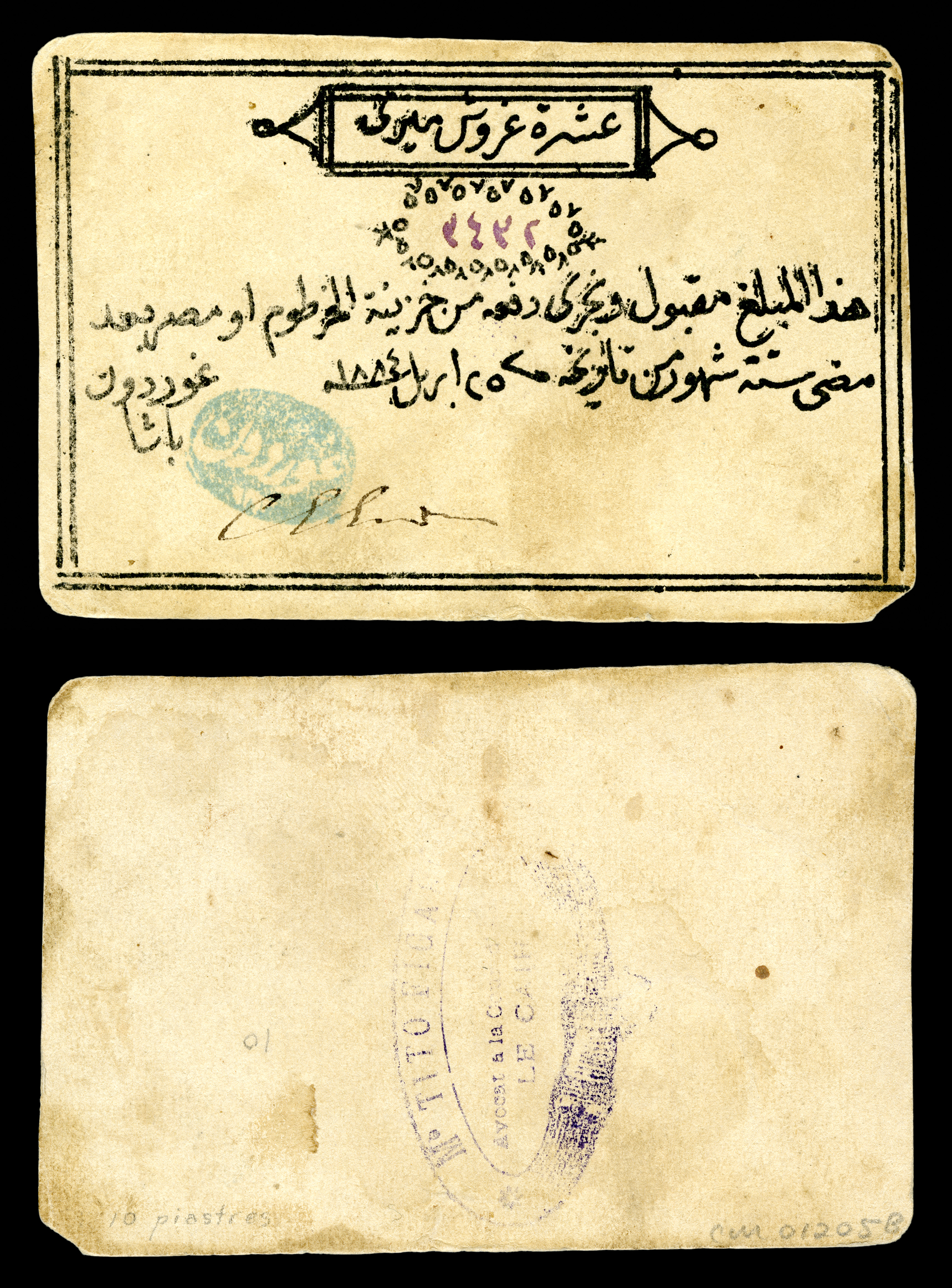 Sudan, Siege of Khartoum note (issued by Charles George Gordon for the British Administration), 10 Piastres (1884)